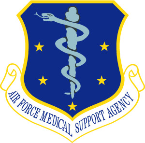 Air Force Medical Support Agency emblem